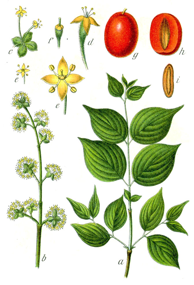 Cornus mas L. Original Caption Echte Kornelkirsche, Cornus mas